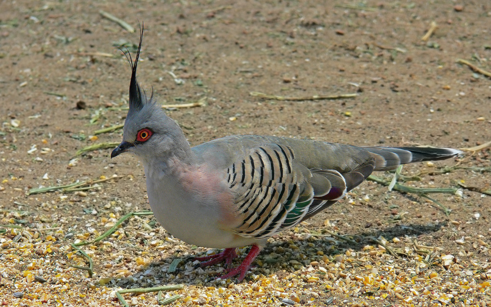 A crested pigeon, Ocyphaps lophotes